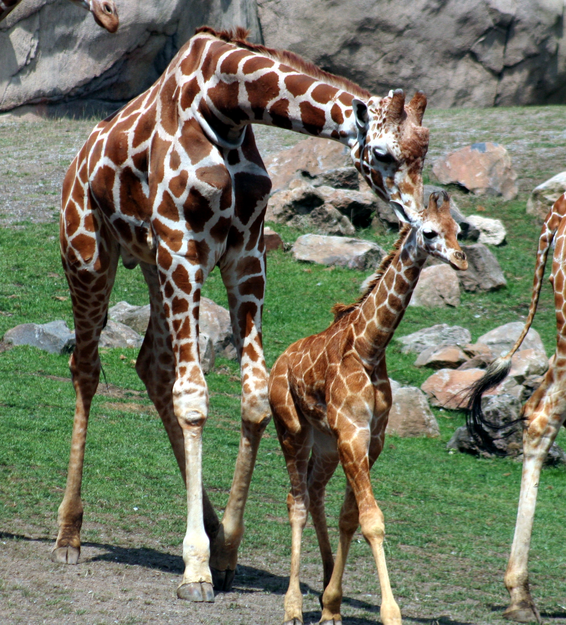 A male (bull) with a baby (calf) giraffe, Giraffa camelopardalis reticulata at the San Francisco Zoo